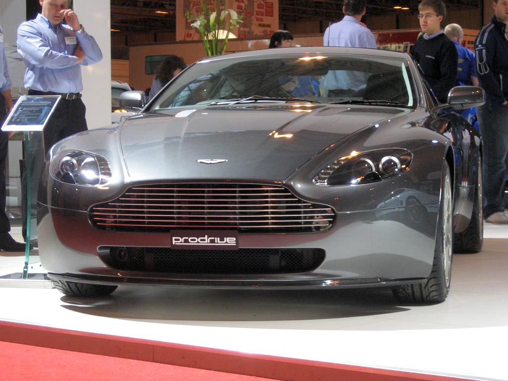 A Prodrive-tuned Aston Martin V8 Vantage